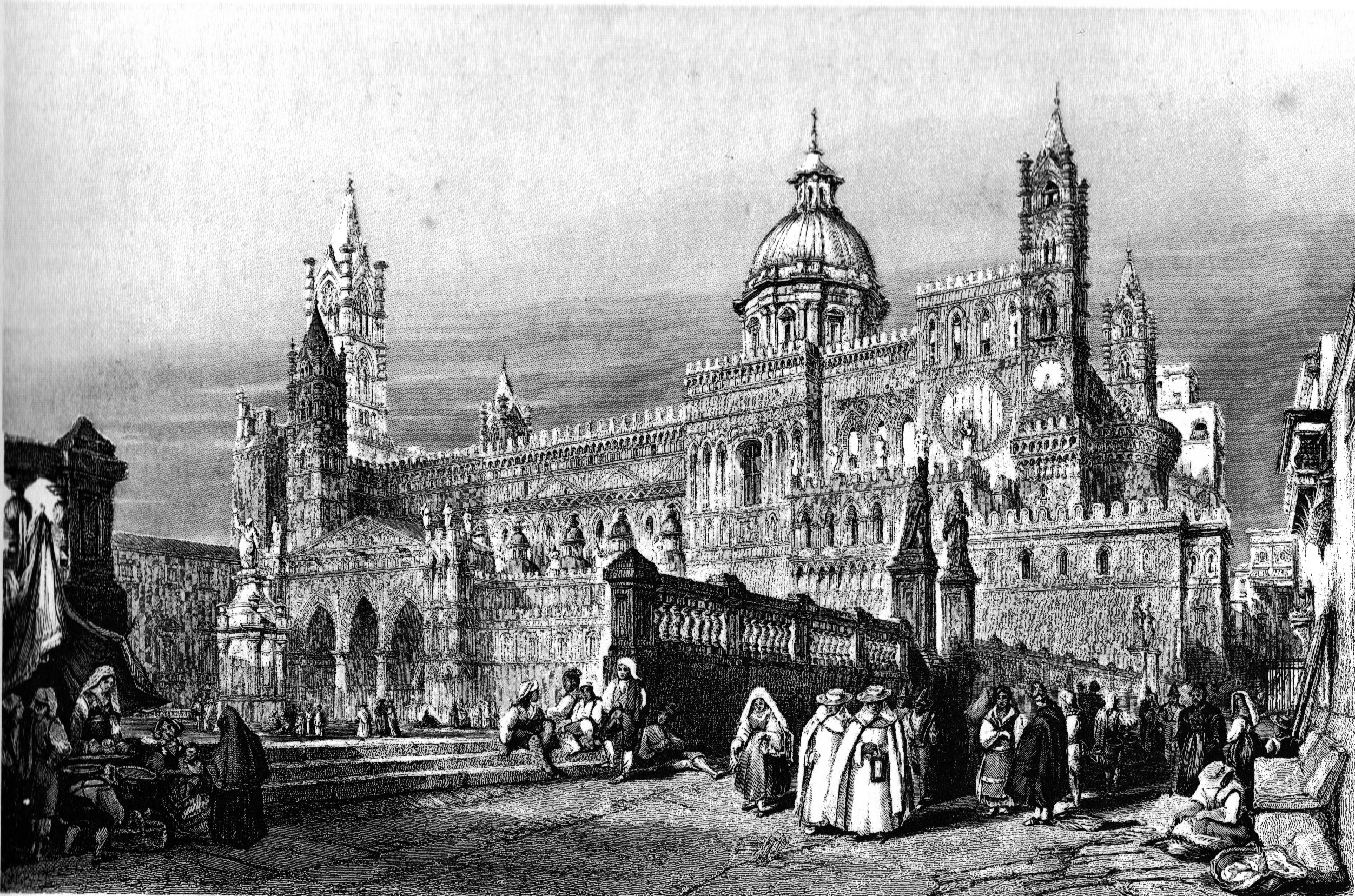 Palermo cathedral around 1840. Drawing by W.L. Leitch, engraving by J.H. Le Keux.